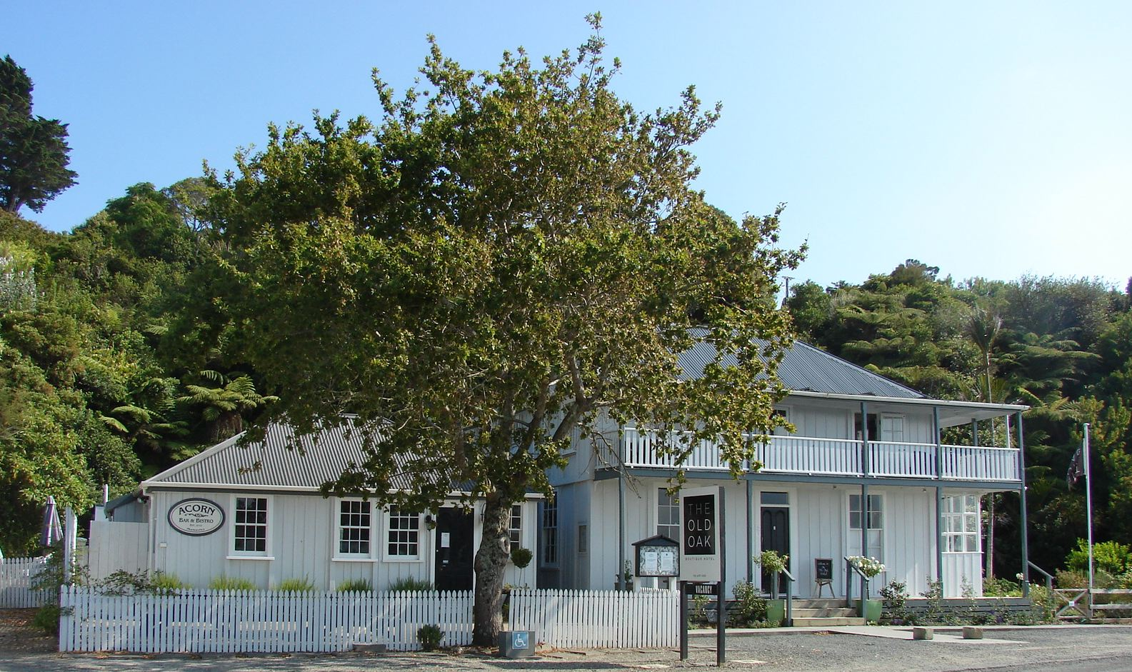 New Zealand Heritage Building of 1861